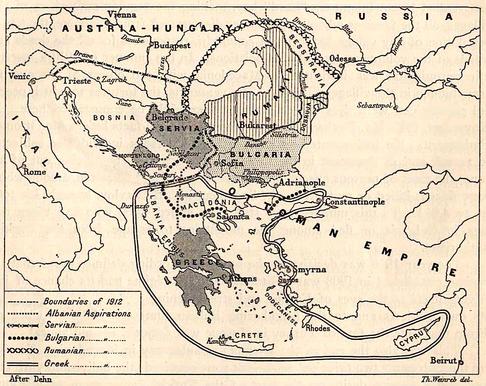 Balkan Peninsula 1912 : territorial aspirations of each nation, since Dehn, by Theodor Weinreb 1913, This work is in the public domain in its country of origin and other countries and areas where the copyright term is the author's life plus 70 years or fewer. You must also include a United States public domain tag to indicate why this work is in the public domain in the United States. Note that a few countries have copyright terms longer than 70 years: Mexico has 100 years, Jamaica has 95 years, Colombia has 80 years, and Guatemala and Samoa have 75 years. This image may not be in the public domain in these countries, which moreover do not implement the rule of the shorter term. Côte d'Ivoire has a general copyright term of 99 years and Honduras has 75 years, but they do implement the rule of the shorter term. Copyright may extend on works created by French who died for France in World War II (more information), Russians who served in the Eastern Front of World War II (known as the Great Patriotic War in Russia) and posthumously rehabilitated victims of Soviet repressions (more information). This file has been identified as being free of known restrictions under copyright law, including all related and neighboring rights.